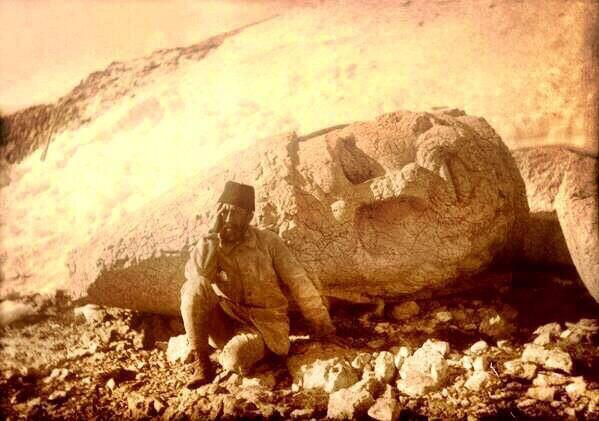 Photograph of Osman Hamdi Bey at Nemrut excavation